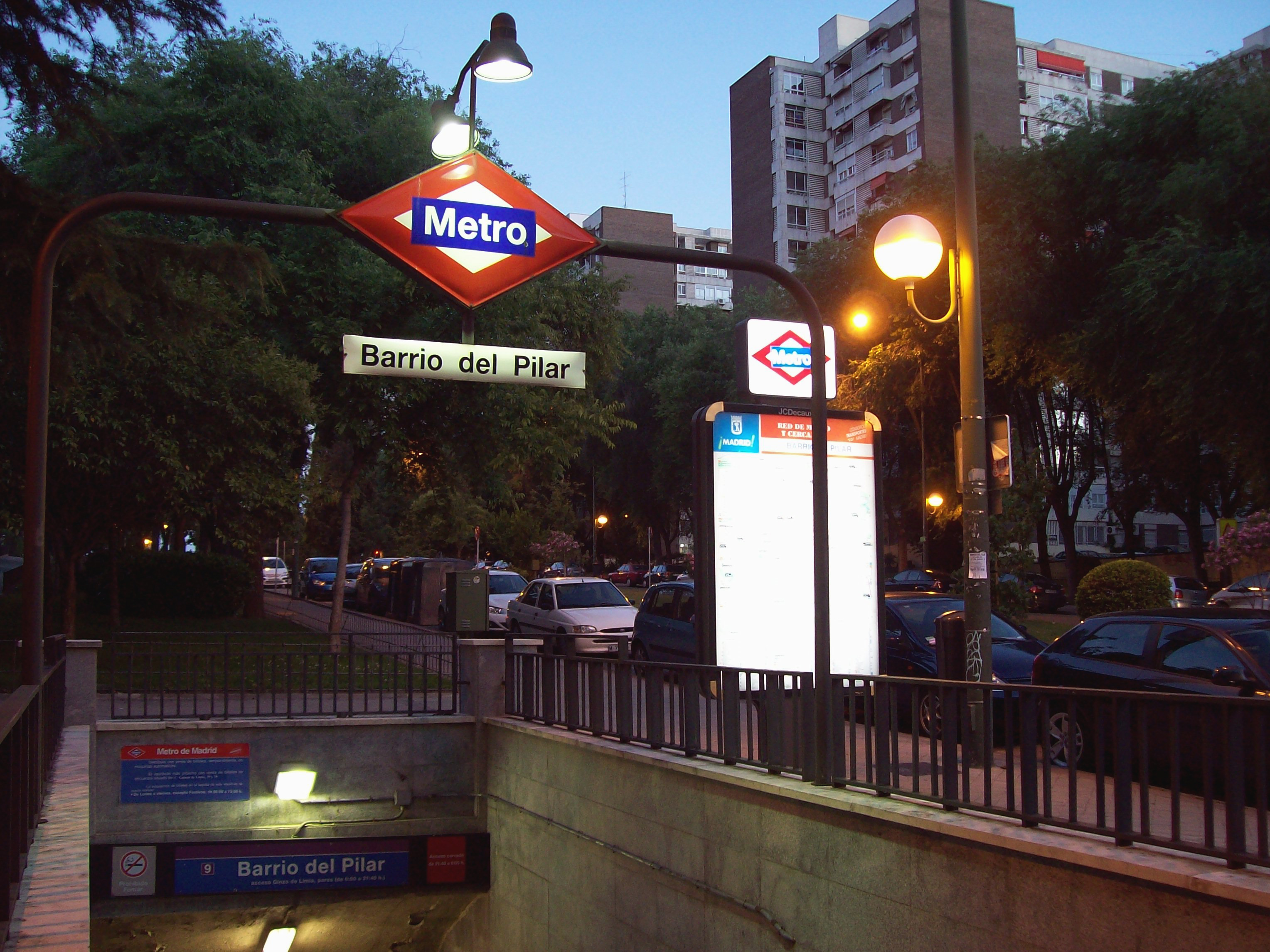 Entrance of Barrio del Pilar metro station in Madrid (Spain).